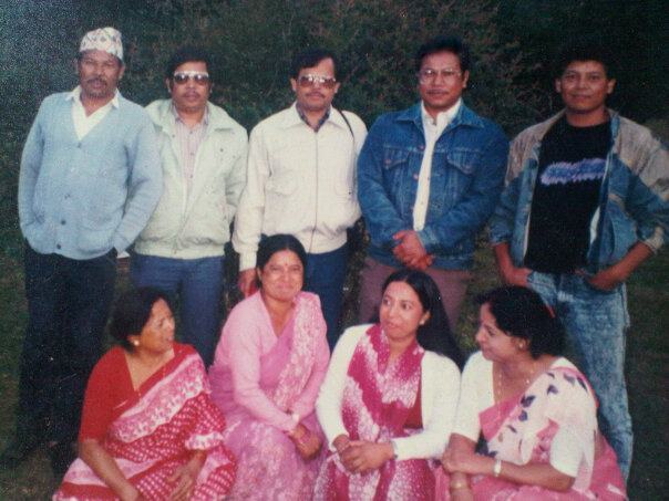 Sarbottam Dangol (second from top right) with his brothers & sisters.